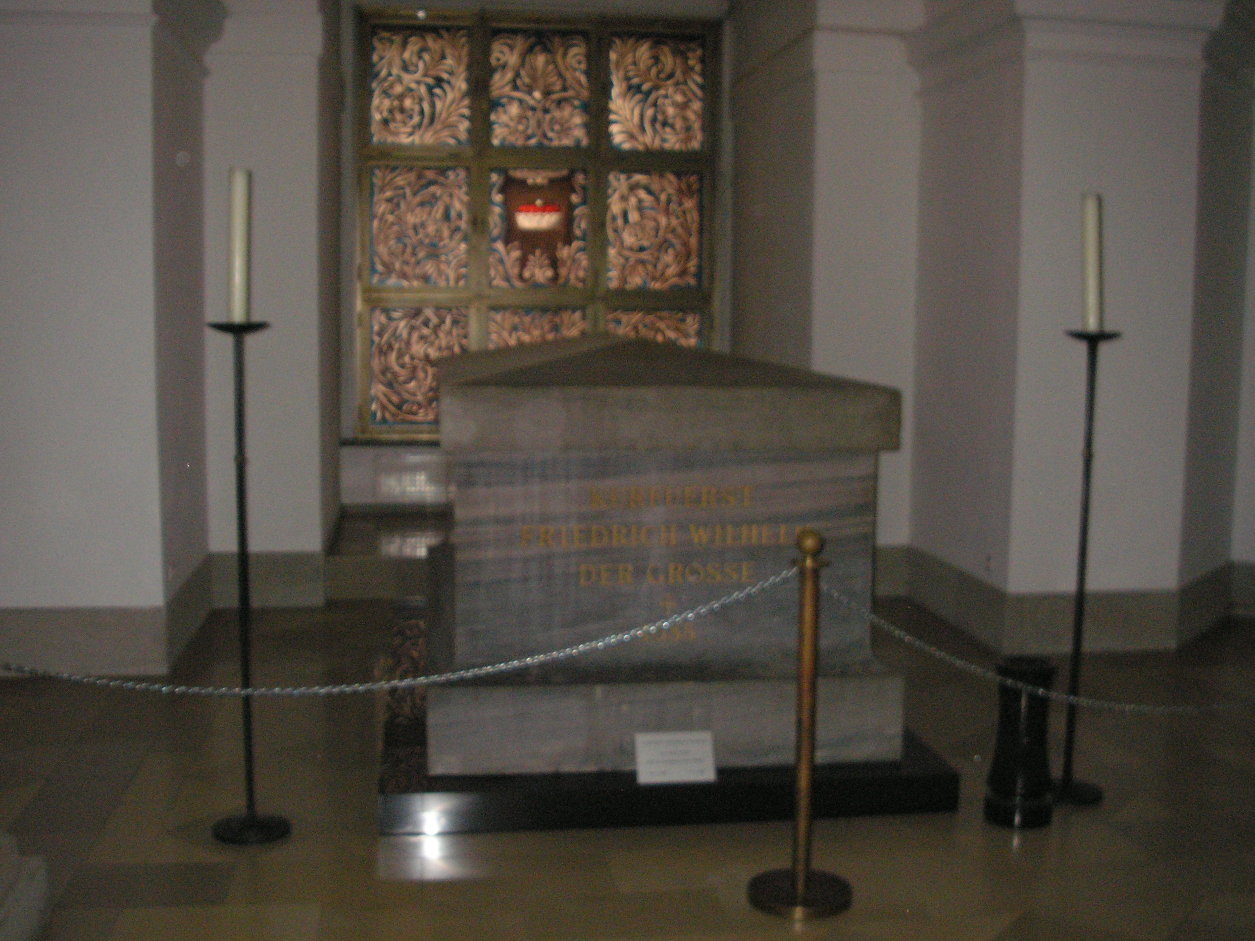 Description: Tomb of Elector Friedrich Wilhelm of Brandenburg (also known as the Große Kurfürst). Located in the Hohenzollern crypt in the Berliner Dom. Source: self-made, I release it into the public domain. Gryffindor 15:43, 11 April 2006 (UTC)